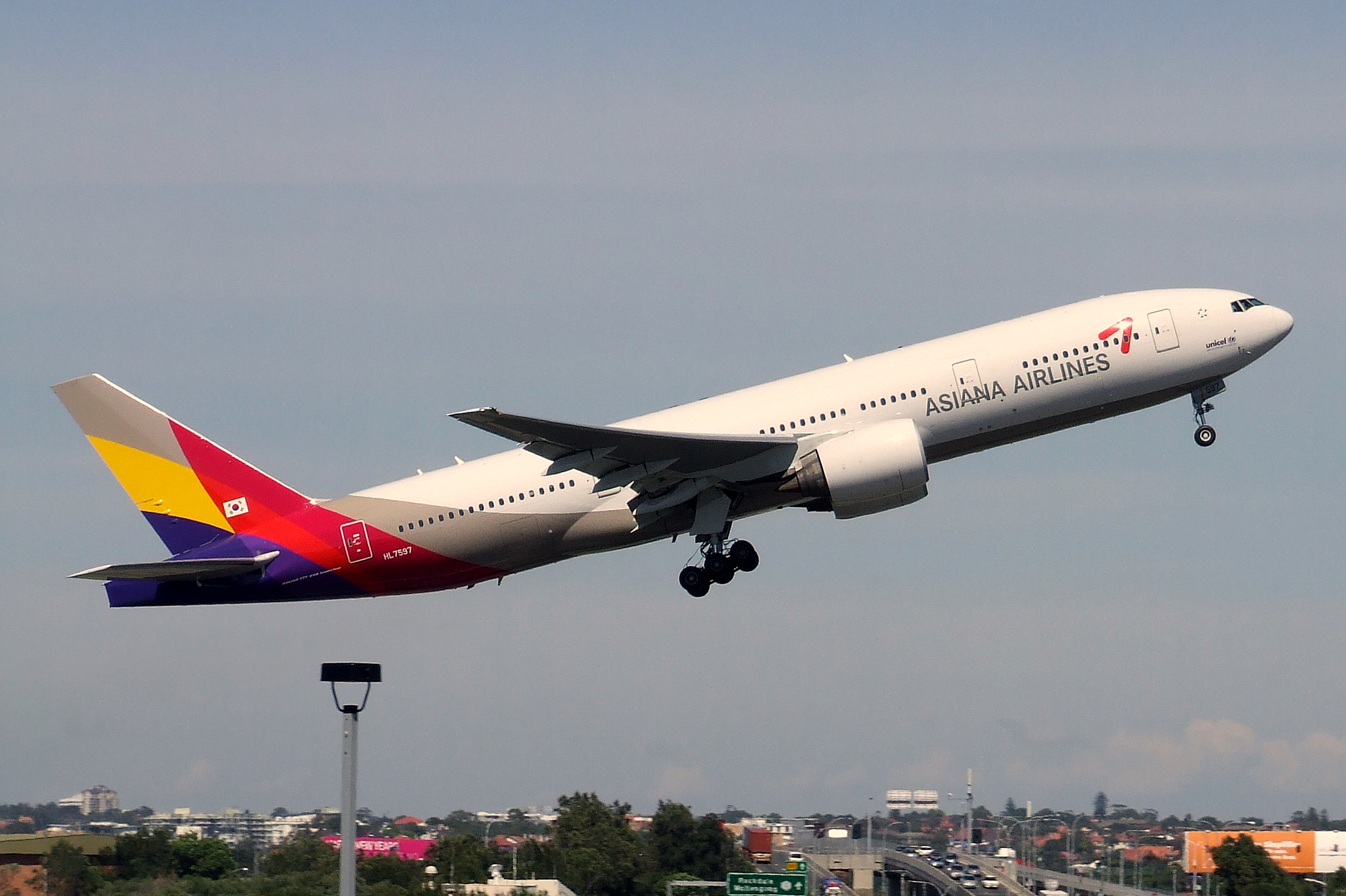 Asiana Airlines Boeing 777-200ER climbing after taking off at Sydney Airport.